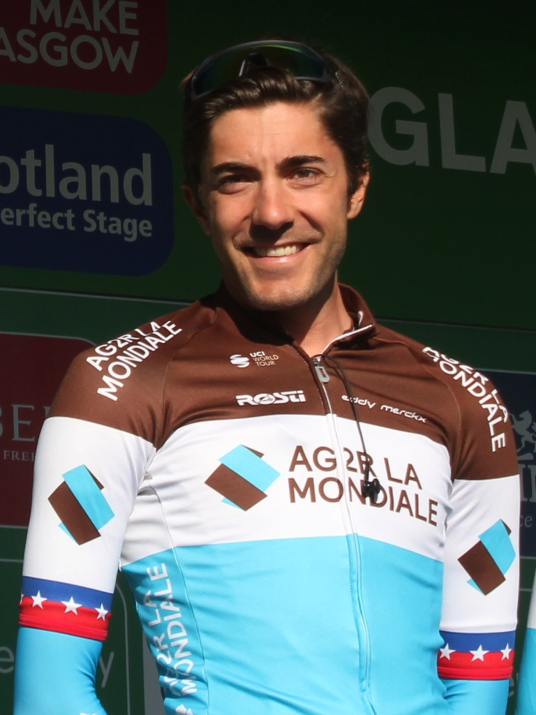 Lawrence Warbasse in Glasgow for the start of the 2019 Tour of Britain cycle race.